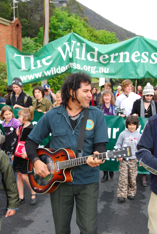 Nicky Bomba at a Warbuton rally protesting against logging in Melbourne's water catchments.